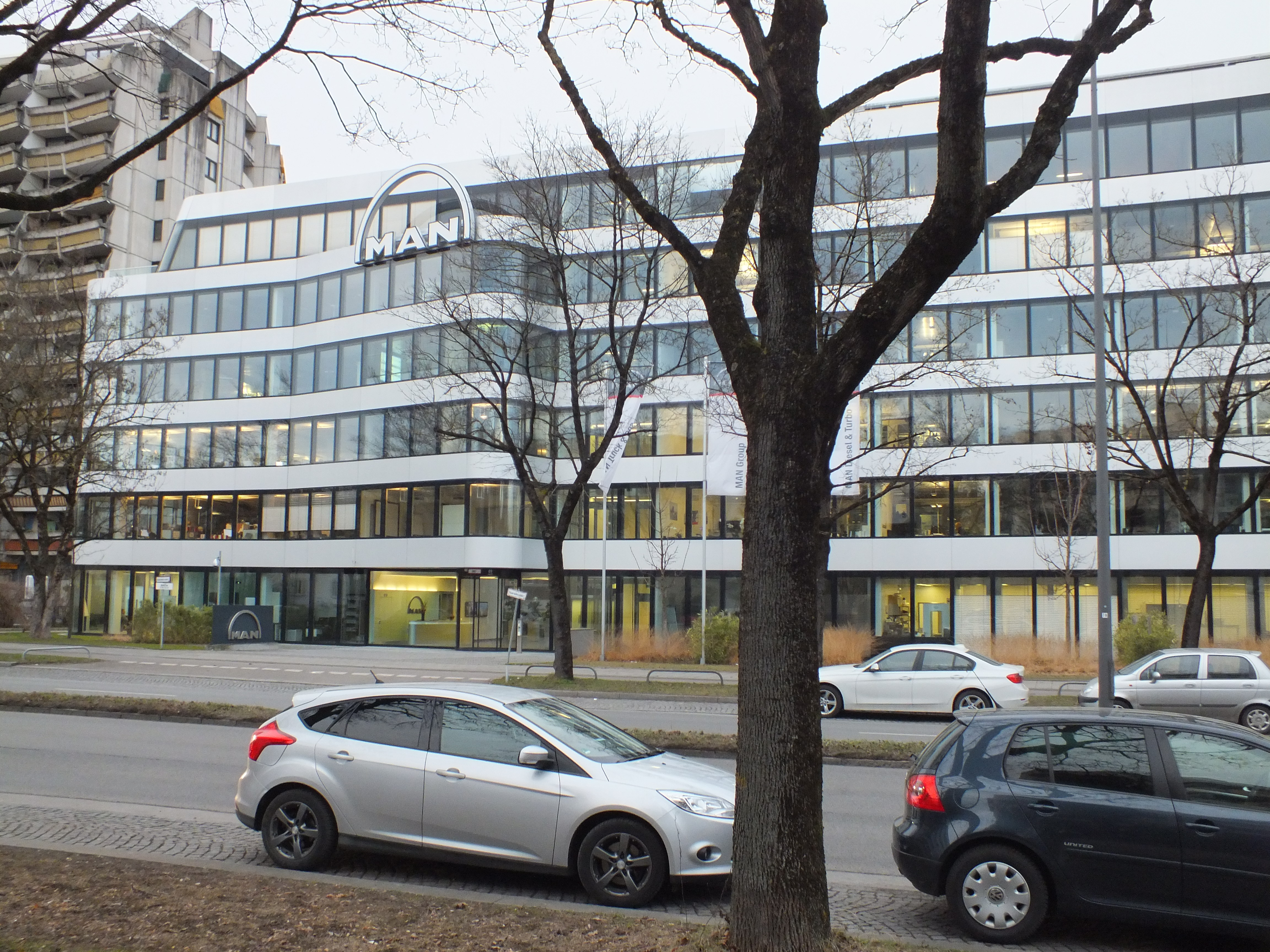 Corporate Center of MAN SE, Munich